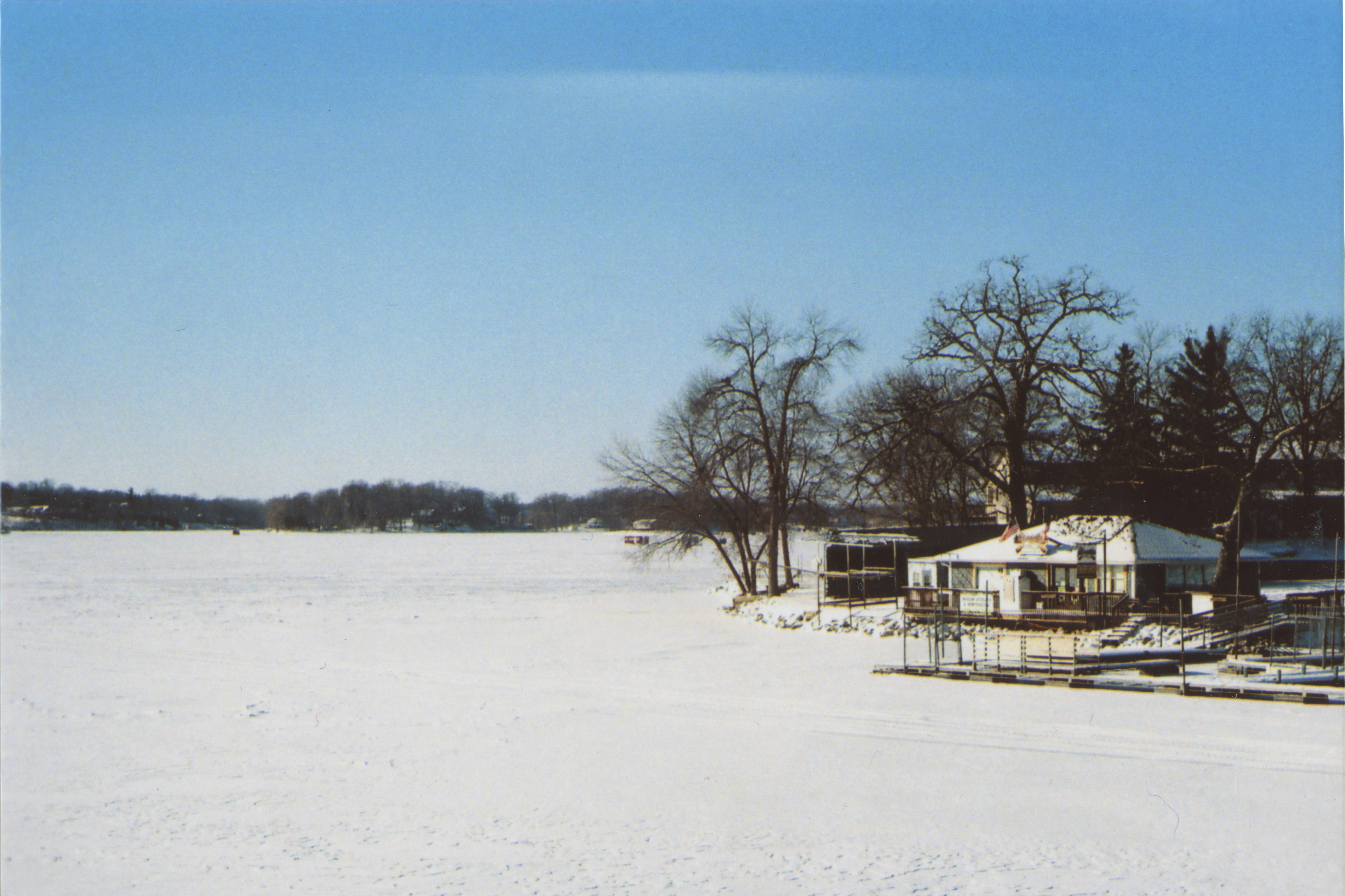 Shot taken at bridge across Prior Lake, Minnesota